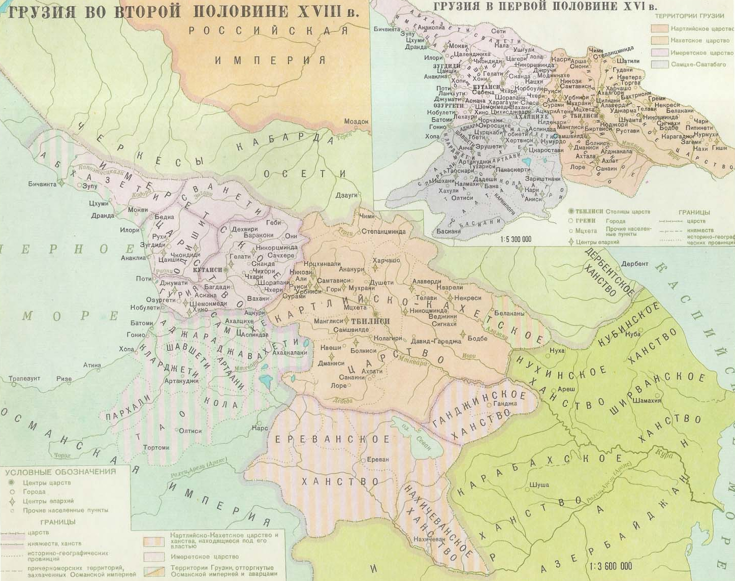 Georgia 15-18 kartli kaxeti